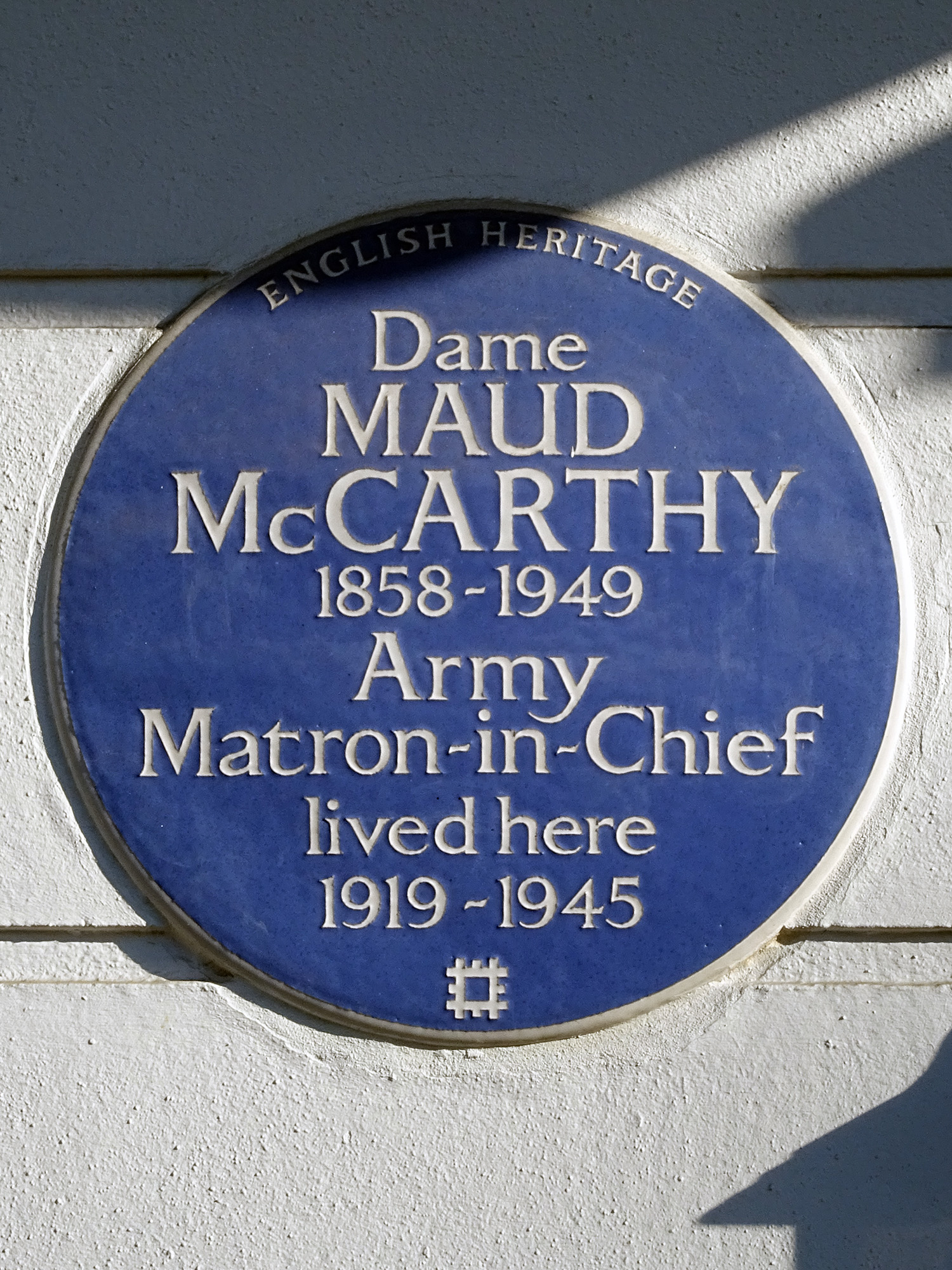 At former residence of Dame Maud McCarthy - 47 Markham Square Kensington, London SW3